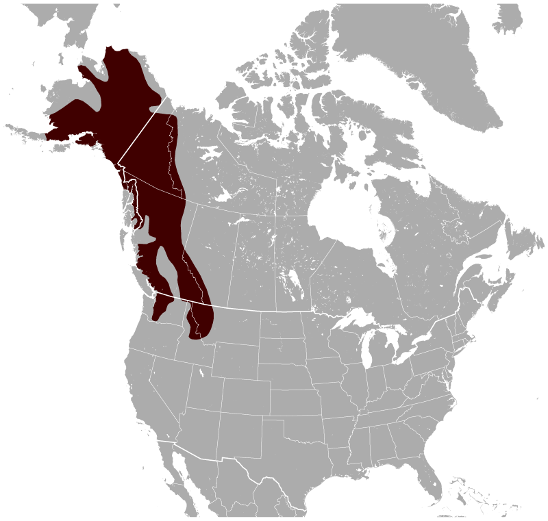 Geographical distribution of the Hoary Marmot Marmota caligata. The map was created using the Generic Mapping Tools, GMT, version 5.1.1.